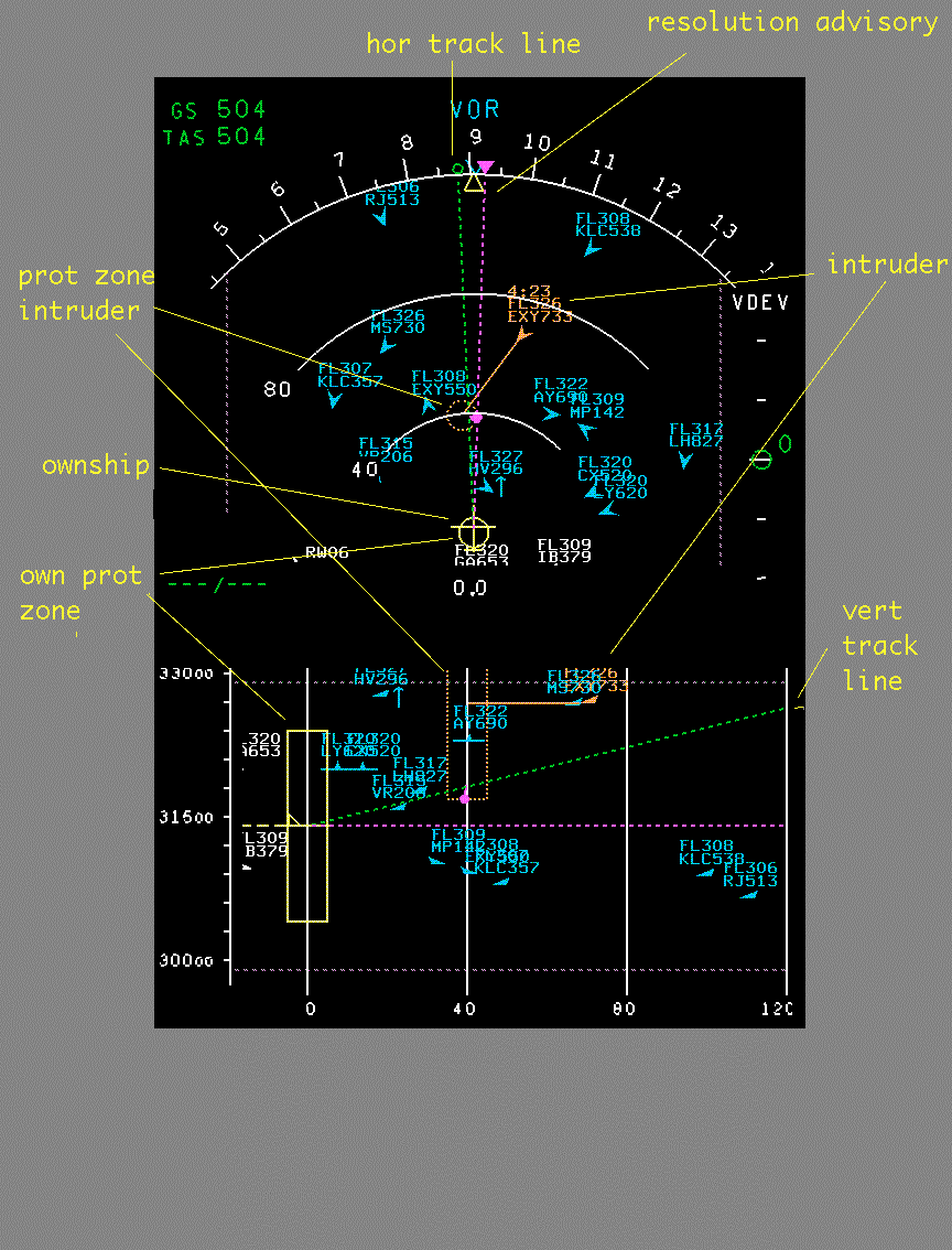 ASAS Airborne Separation in the cockpit